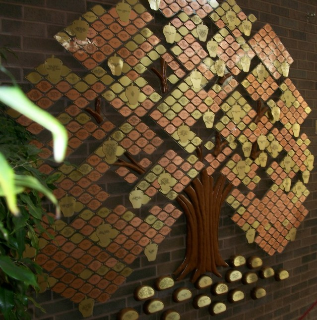 Donors to Union County College are honored with engraved names and messages in this metallic tree design which appears on a wall in the Student Commons area.